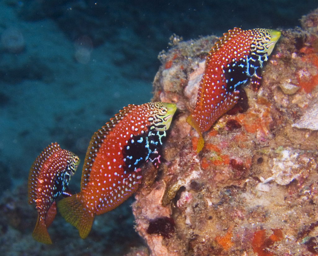 Macropharyngodon bipartitus